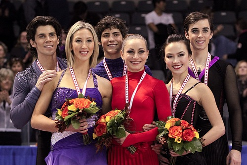 Sinead Kerr / John Kerr (2), Vanessa Crone / Paul Poirier (1), Madison Chock / Greg Zuerlein (3) at the 2010 Skate Canada International